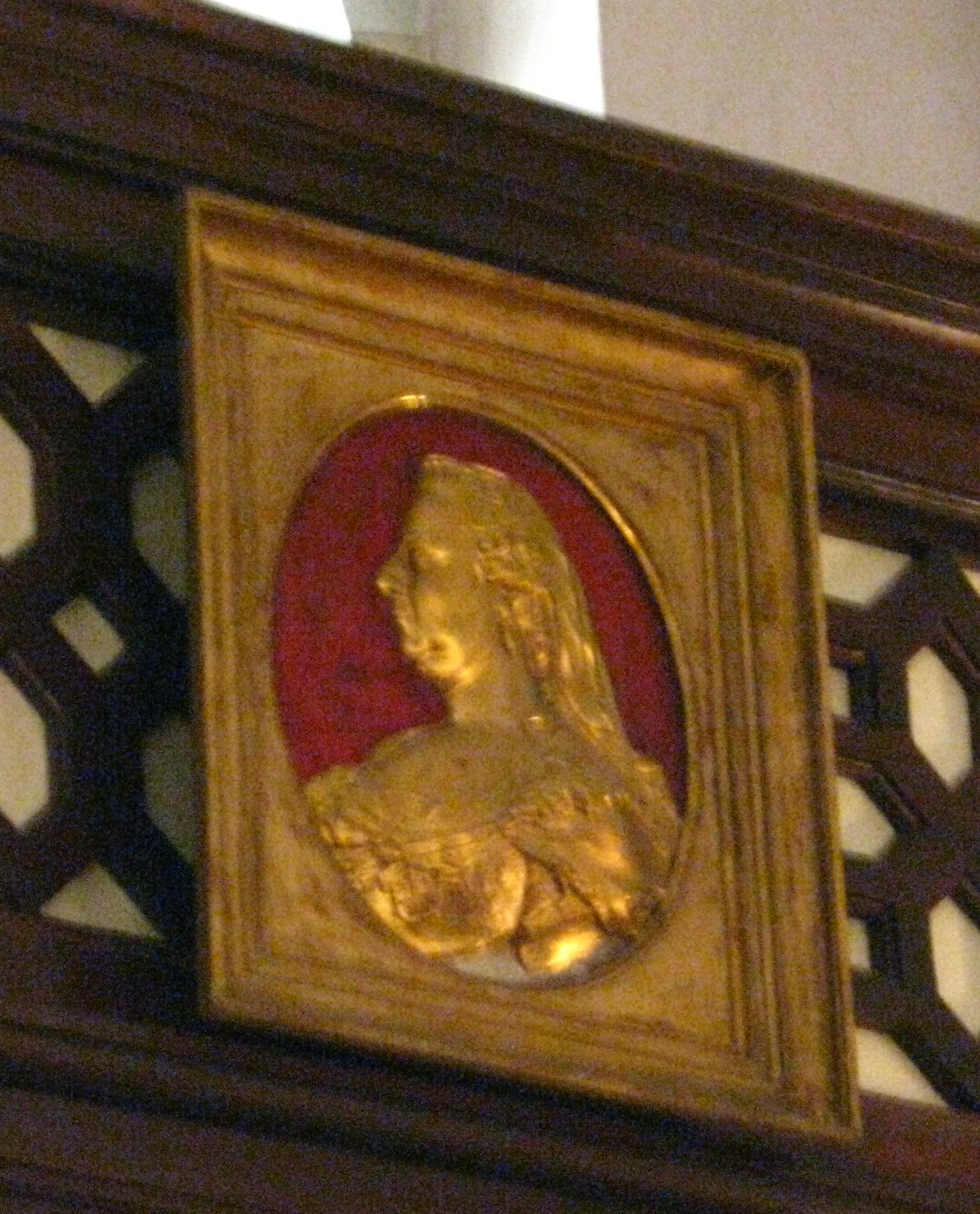 Maria Theresia memorial plaque